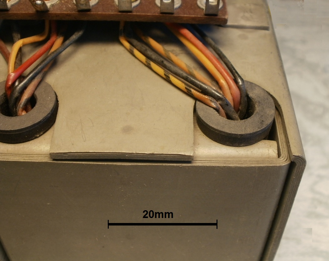 magnetic screen of a mains transformer from an oscilloscope. The screen consists of 3 open boxes of wounded Mu metal sheet which are set together orthogonally to get a closed one.